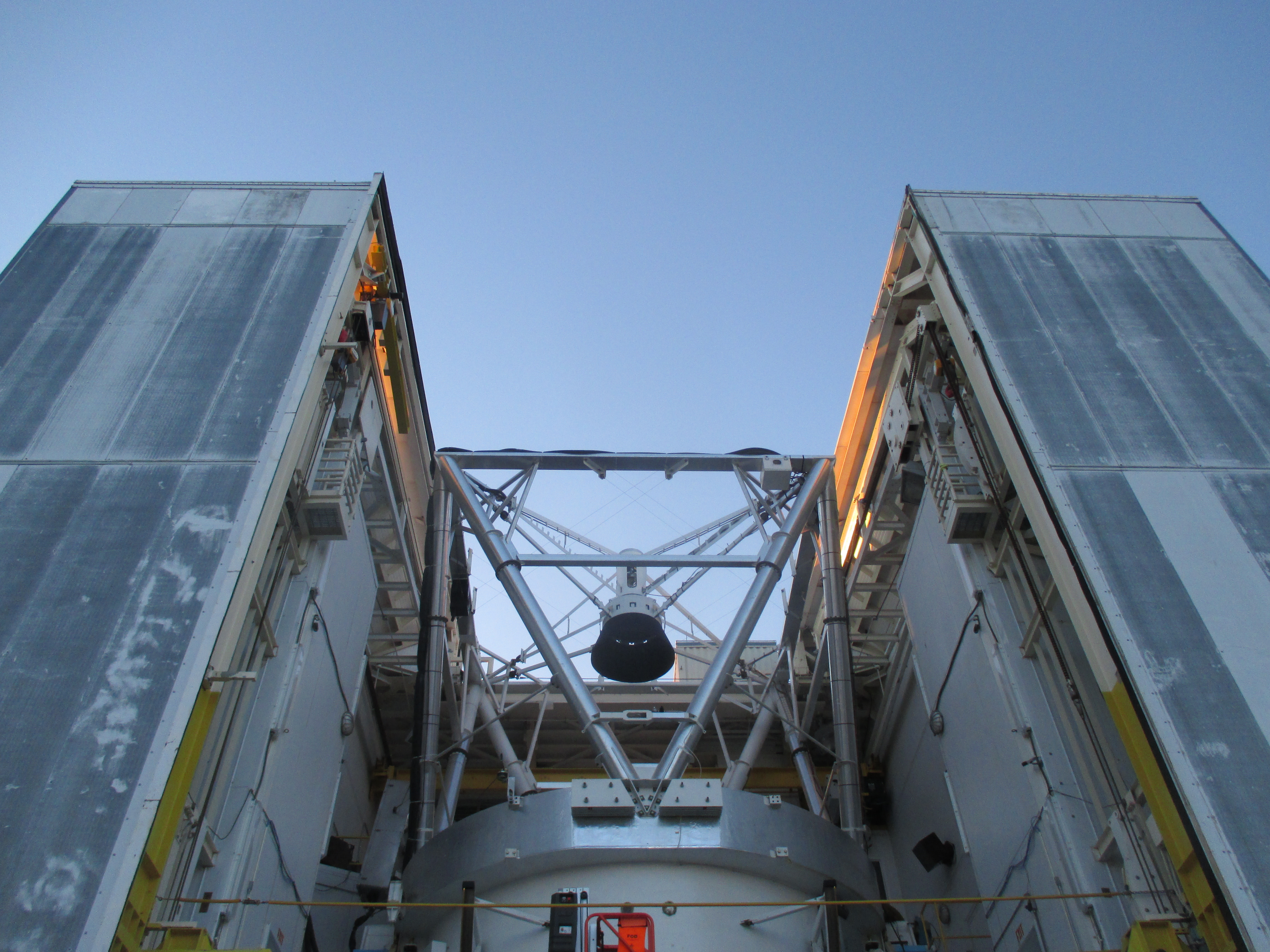 The MMT observatory, opening at sundown to begin observations